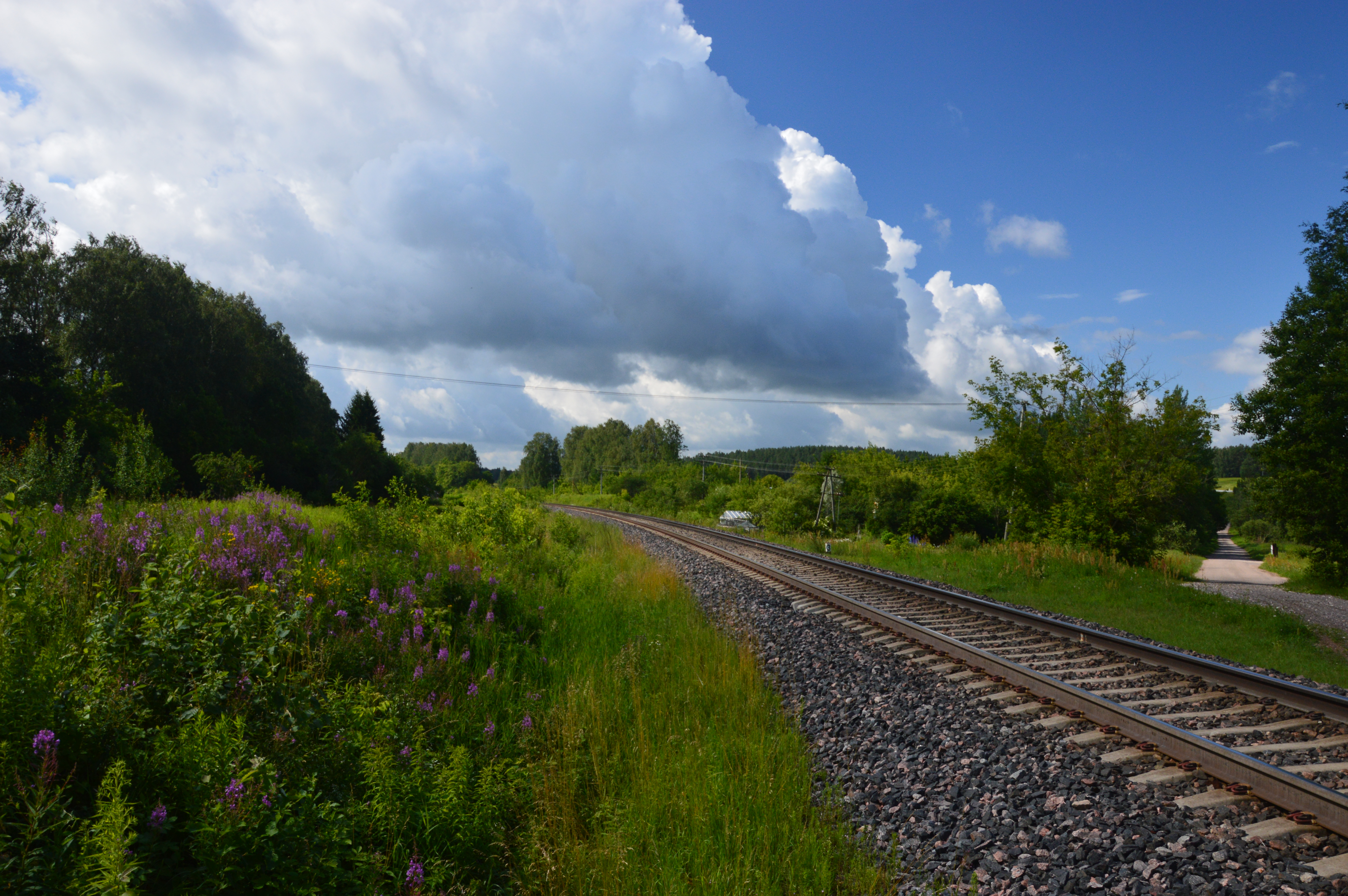 Tartu–Valga railway line (Estonia) at Tõravere